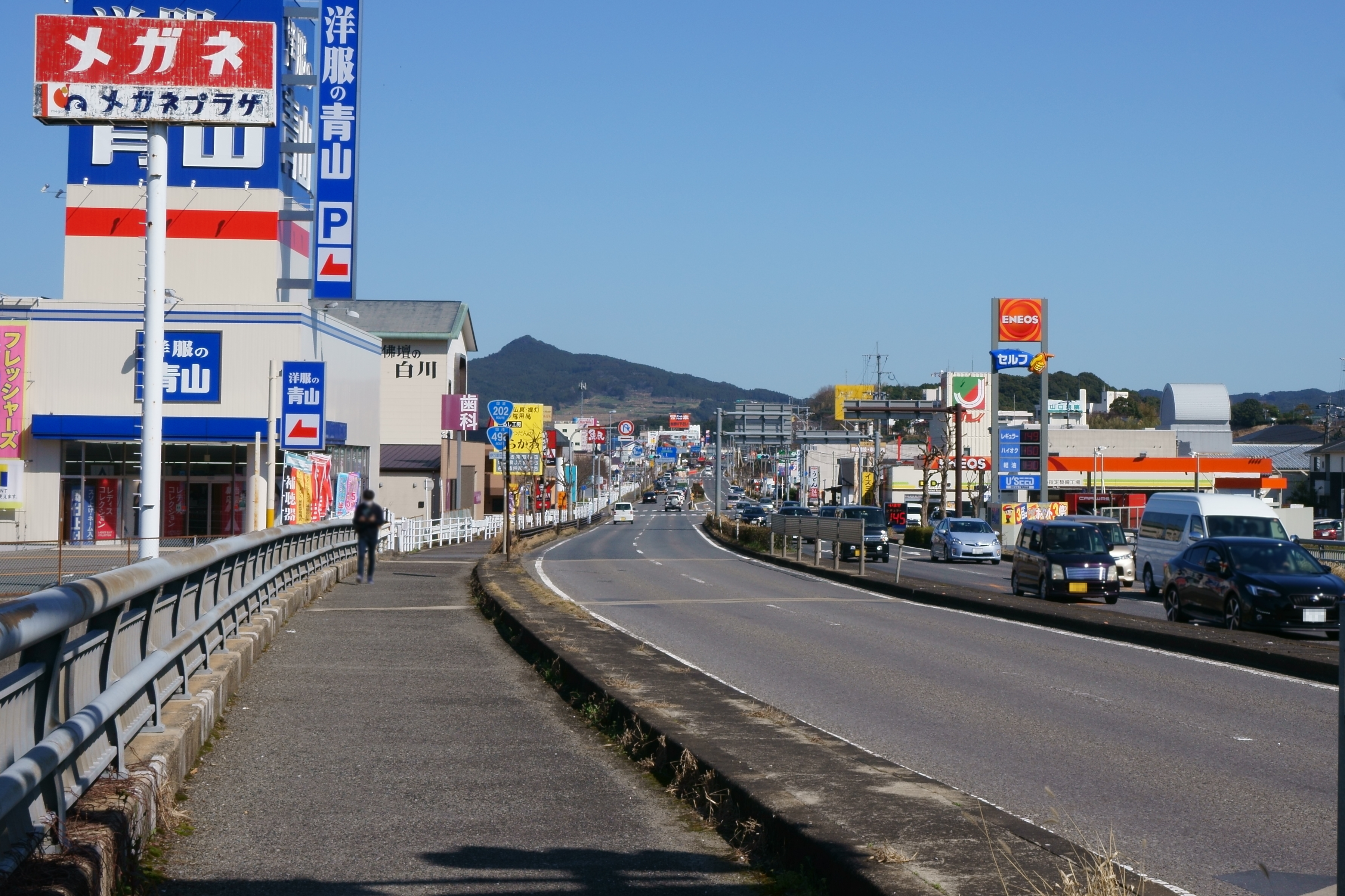 National Route No.202 (also designed as No.498) from Kunimidai intersection in Shintenchō, Imari city, Saga prefecture.